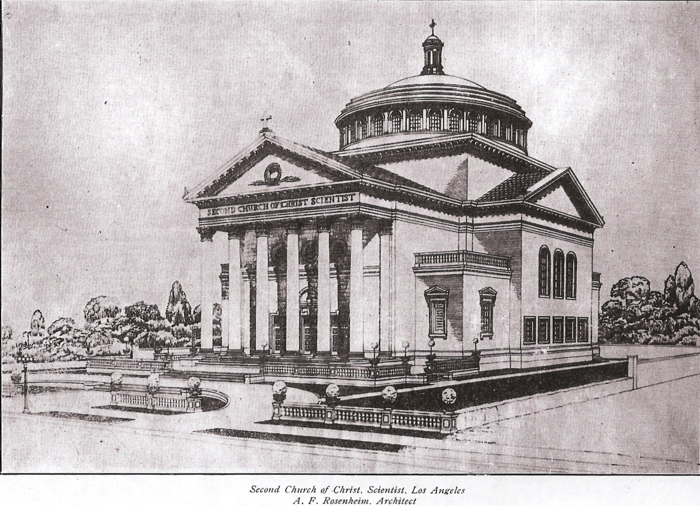 Article=Alfred Rosenheim Description=Photograph of Second Church of Christ Scientist designed by Rosenheim Source=The Architect and Engineer of California, March 1907, p. 44 Published in the United States before 1923.